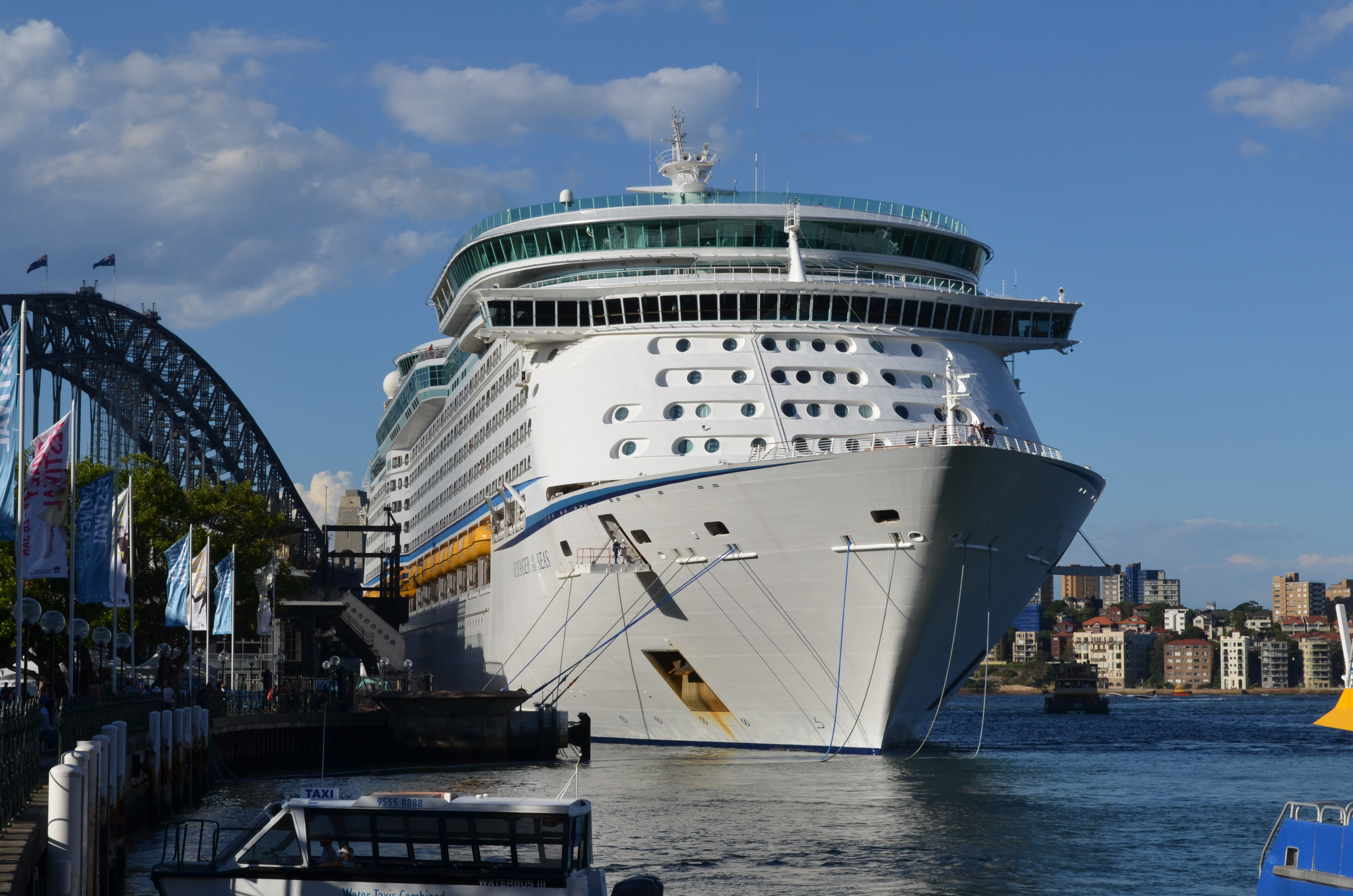 The cruise ship Voyager of the Seas berthed at the Overseas Passenger Terminal in Sydney